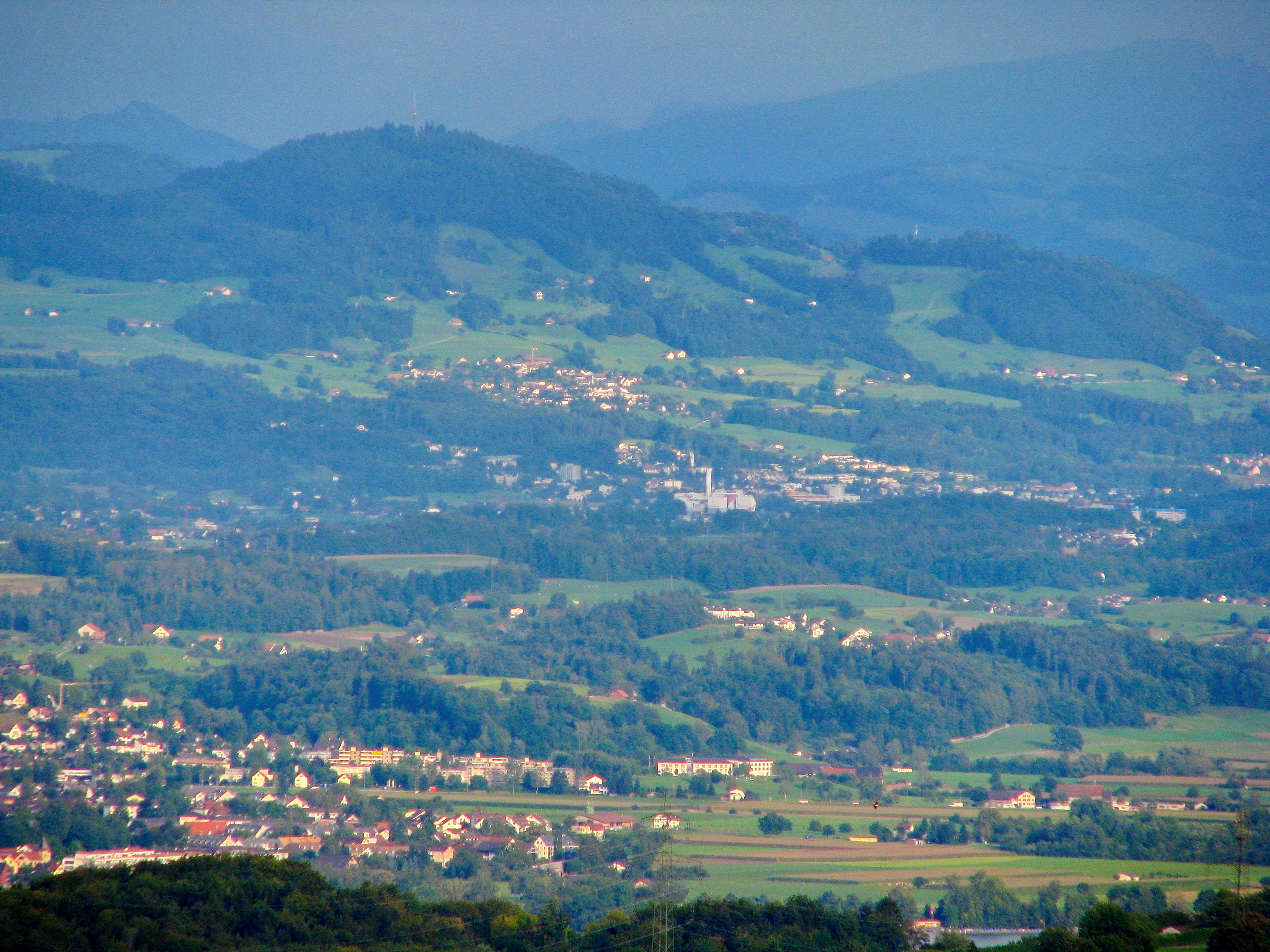 Uster (parts of to the left) and Hinwil as seen from the Loorenkopf tower on Adlisberg (Switzerland), Bachtel and Hasenstrick (to the right) in the background.